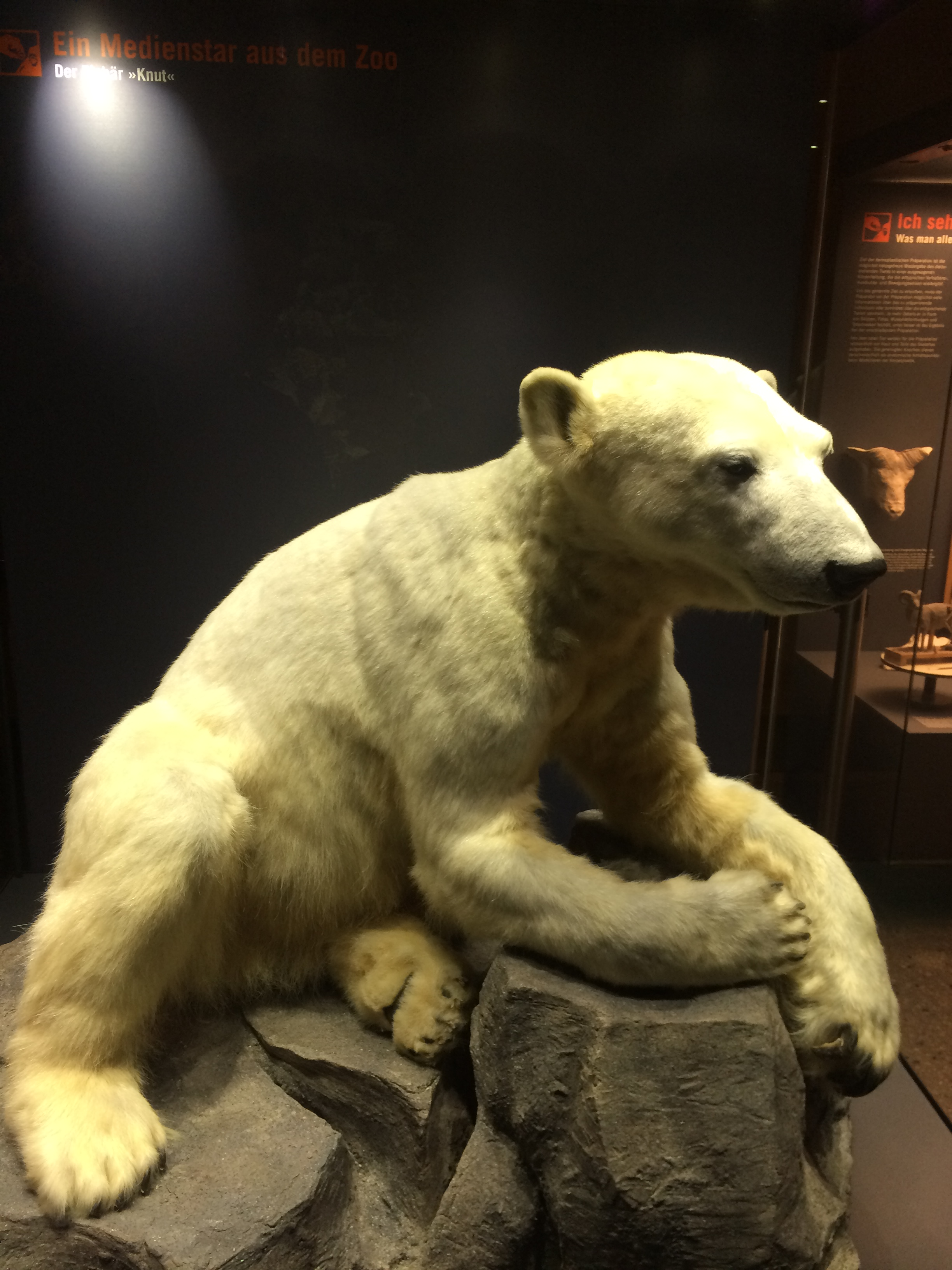 Knut Polarbear at the Natural History Museum in Berlin